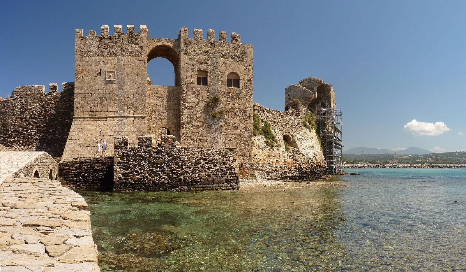 The castle of Methoni occupies the whole area of the cape and the southwestern coast to the small islet that has also been fortified with an octagonal tower and is protected by the sea on its three sides. You can use the images for free. But a link to - I would be happy :)